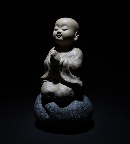 Budah